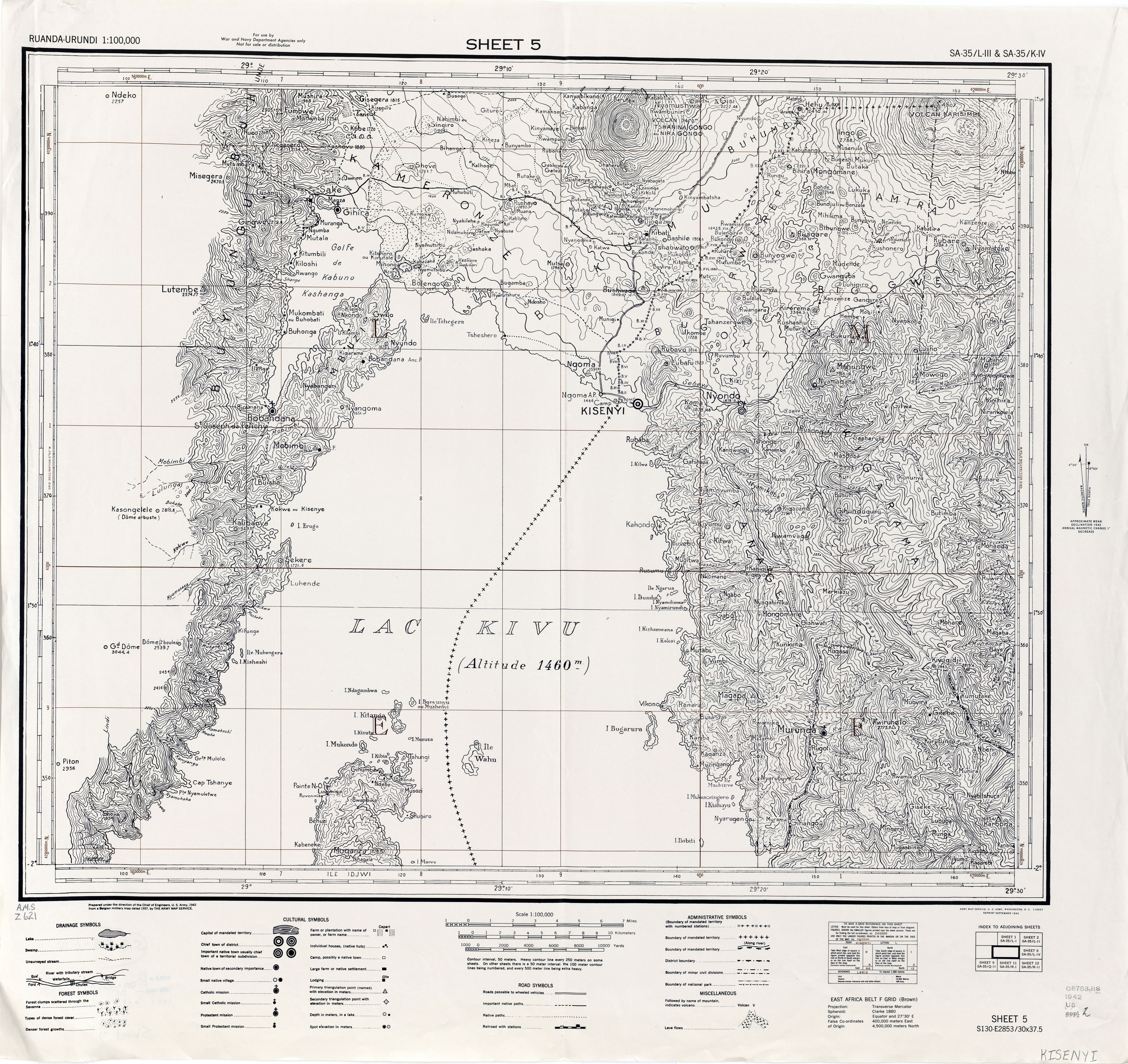 Map of Ruanda-Urundi, showing location of Kisenyi (i.e. Gisenyi) and other towns/villages. Part of: Ruanda-Urundi 1:100,000 (1942). U.S. Army Map Service, Series Z621.